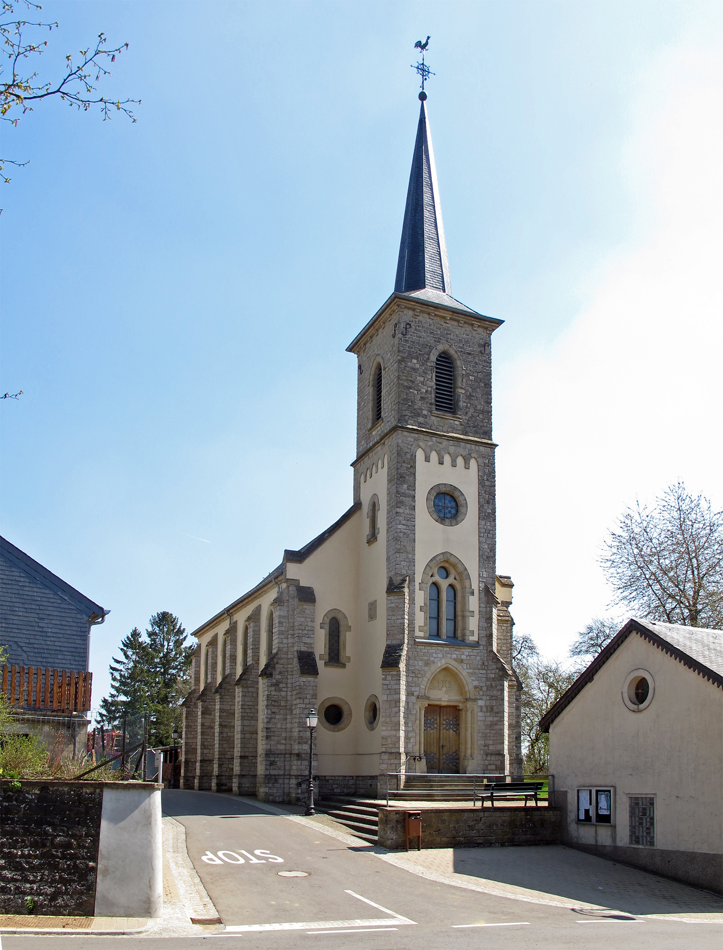 Church of Greisch, Luxembourg